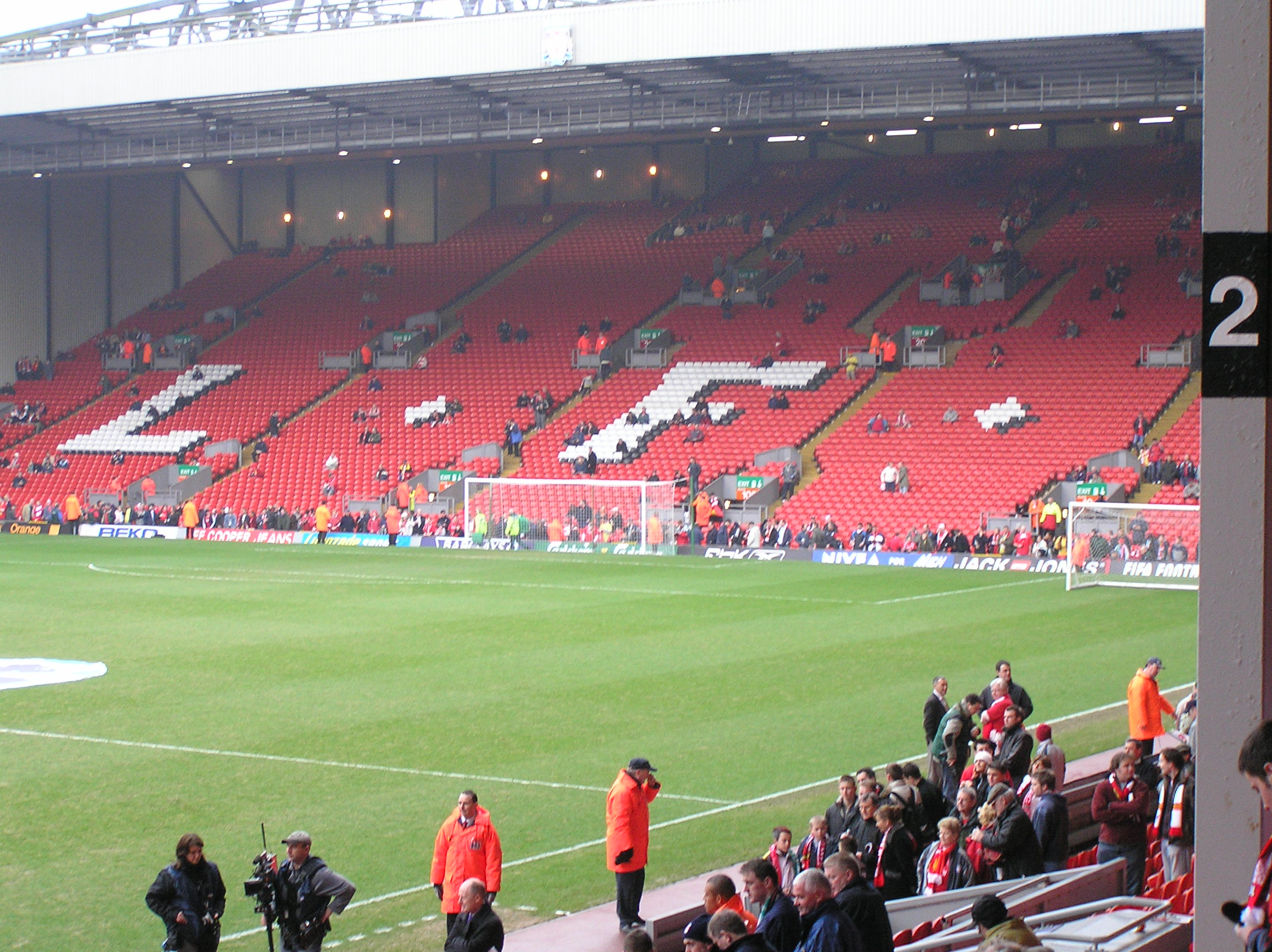 A view of the famous Kop of Liverpool FC's Anfield stadium just before the match LFC - Manchester United. Arne M. Jensen, Denmark